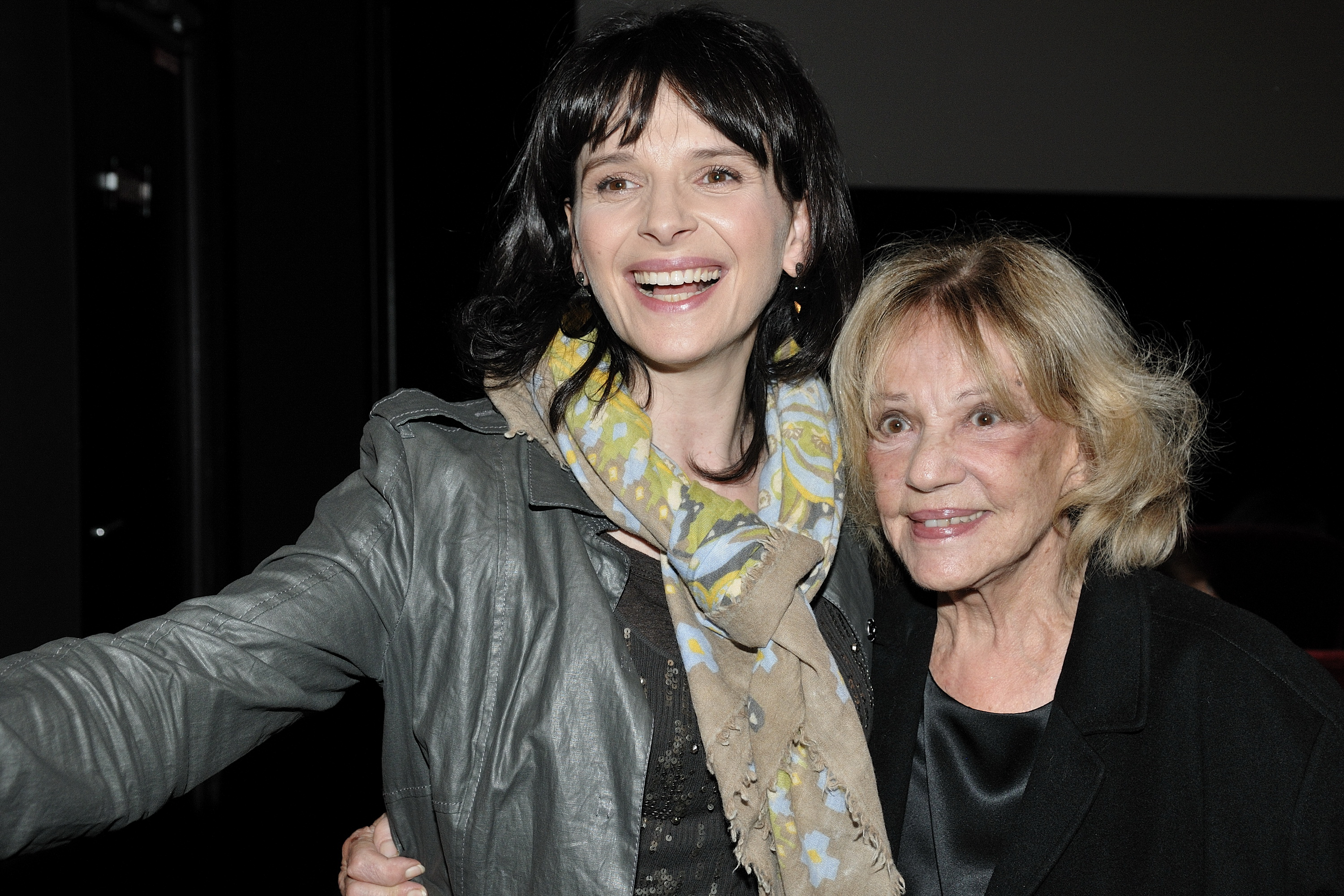 Juliette Binoche (French actress), and Jeanne Moreau (French actress) pose prior to the screening of the movie 'Juliette Binoche dans les Yeux' held at the Elysee Biarritz movie theatre in Paris, France on October 22, 2009. Photo by Nicolas Genin/ABACAPRESS.COM